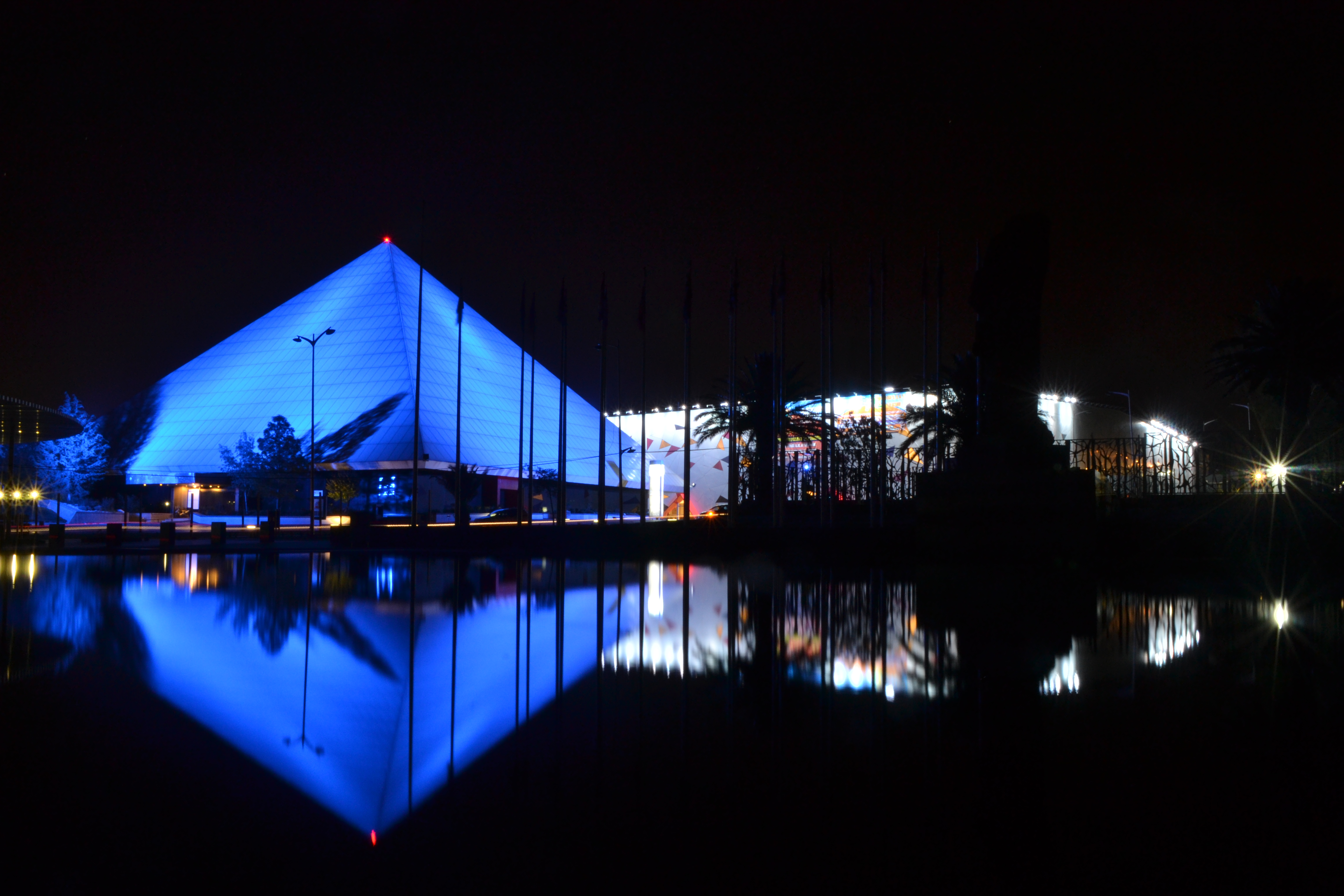 Planetary (blue) and exhibition center (white) of Puebla in the night.